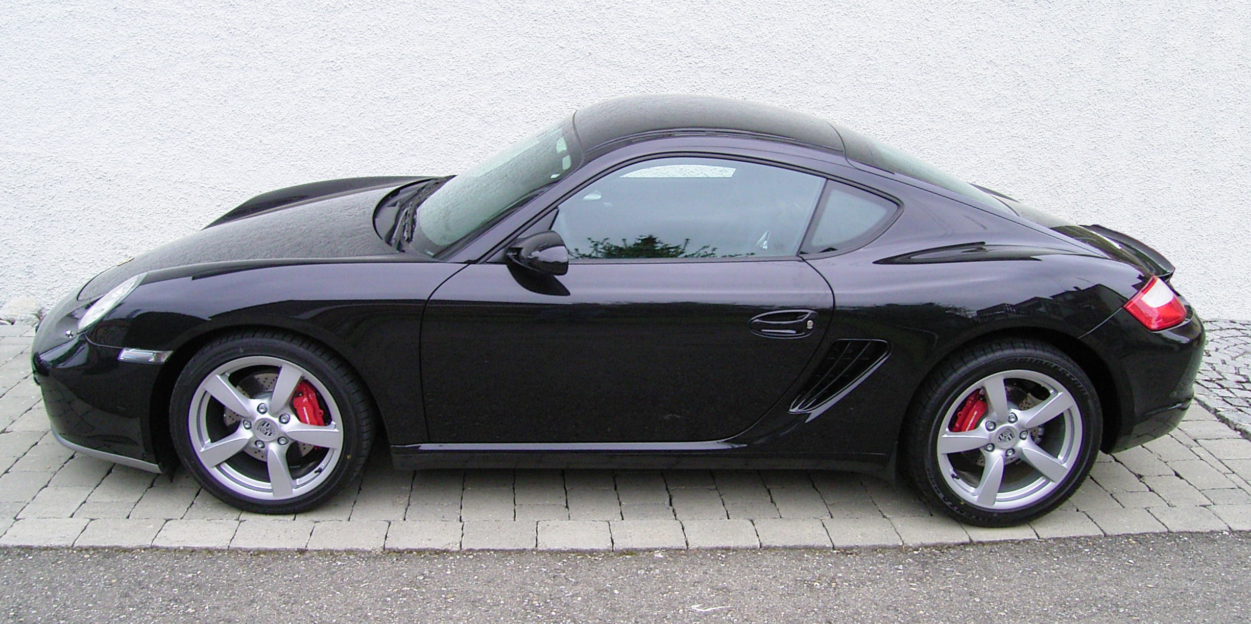 A black Porsche Cayman in Front-left view